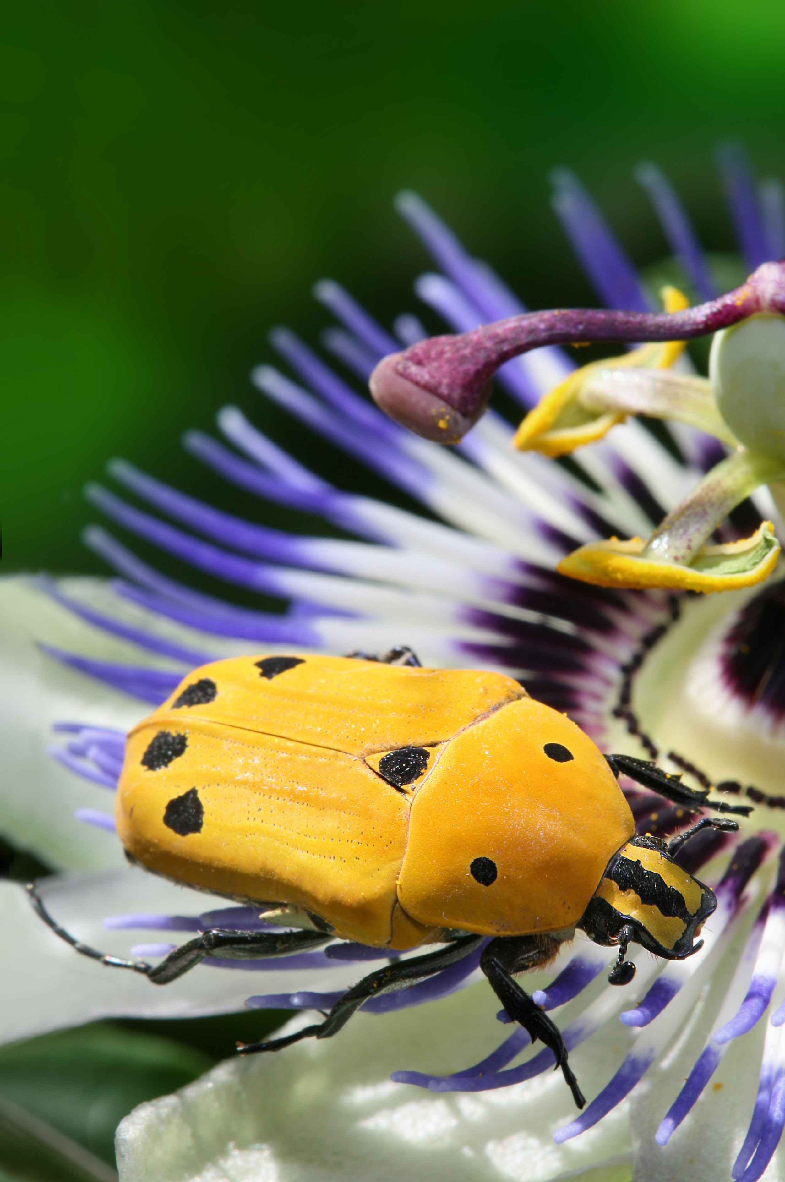 Description: Euchroea auripimenta is a Rose chafer (Cetoniidae)